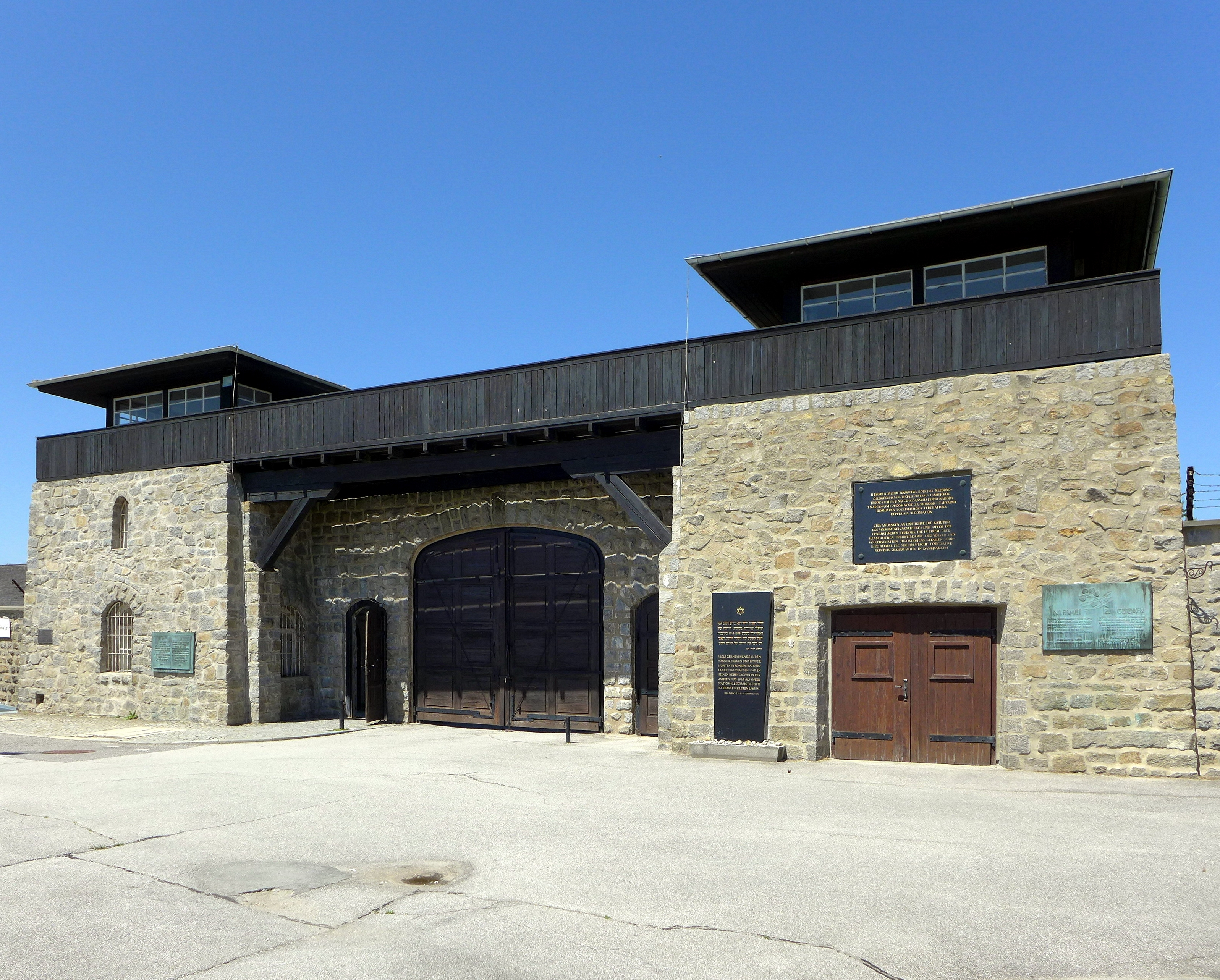 Main entrance building (viewed from inside the camp), KZ Mauthausen memorial, Mauthausen, Upper Austria, Austria